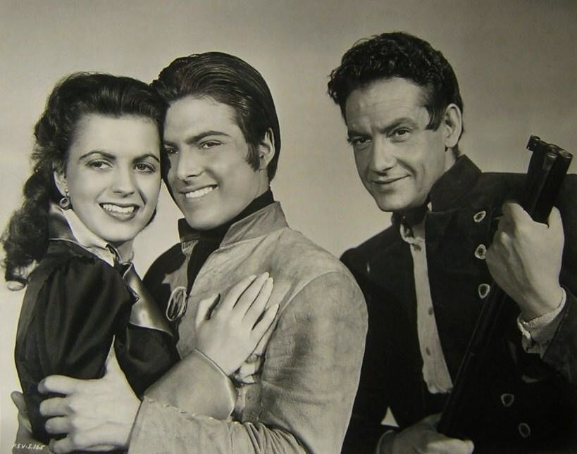 L. to R. : Faith Domergue, Donald Buka, and George Dolenz in Vendetta (1950) - publicity still (original image damaged, modified and cropped : see source)